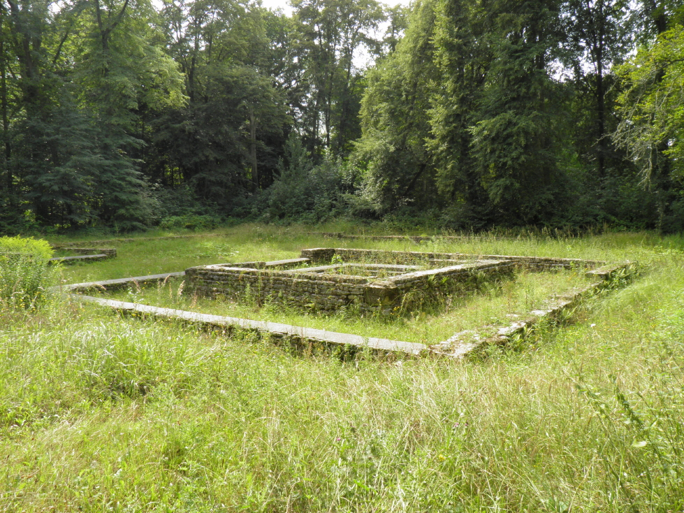 Ruins of the gallo-roman temple in the middle of the Forêt d'Halatte, Oise, France.